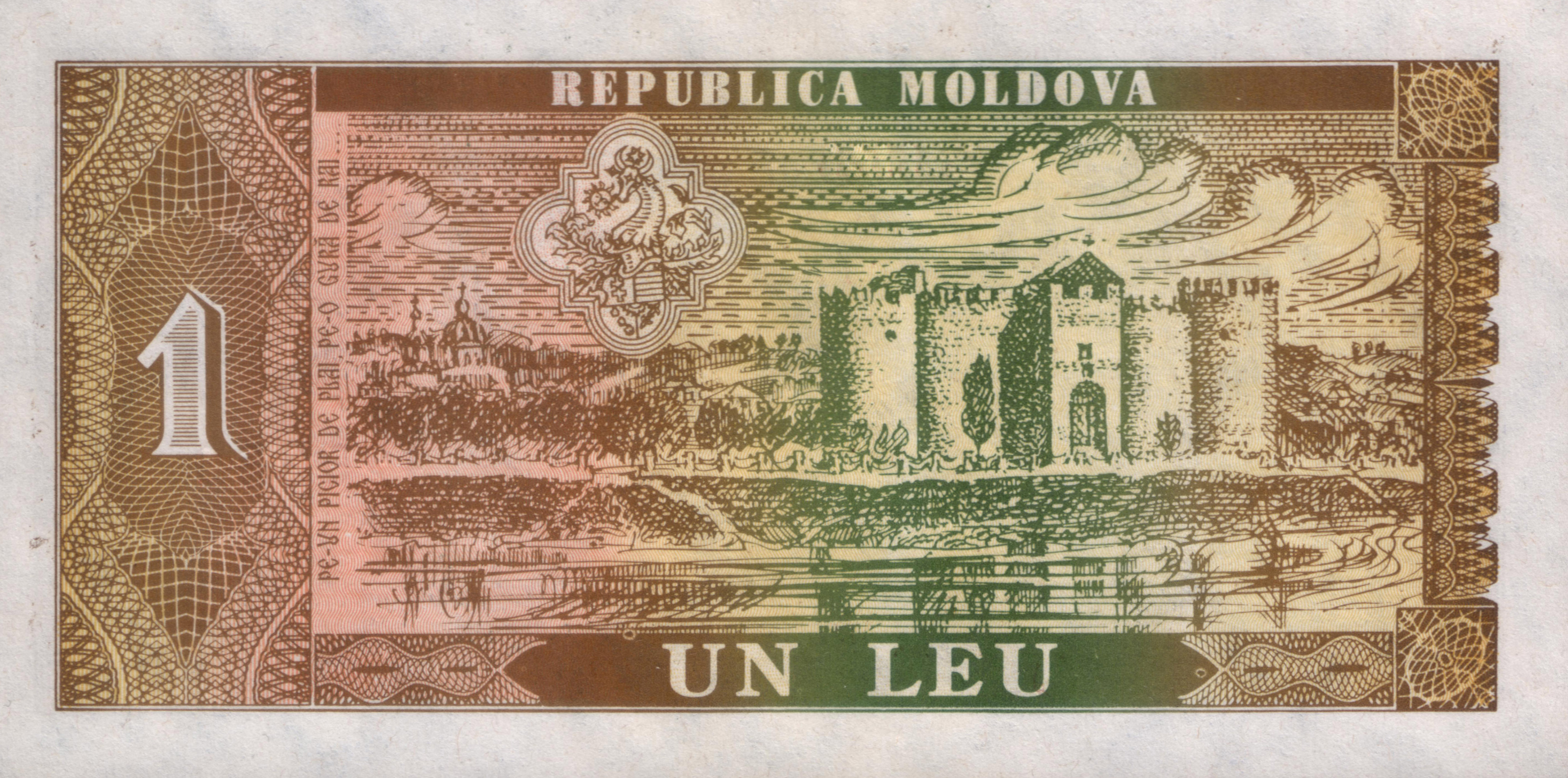 1 lei (1992)